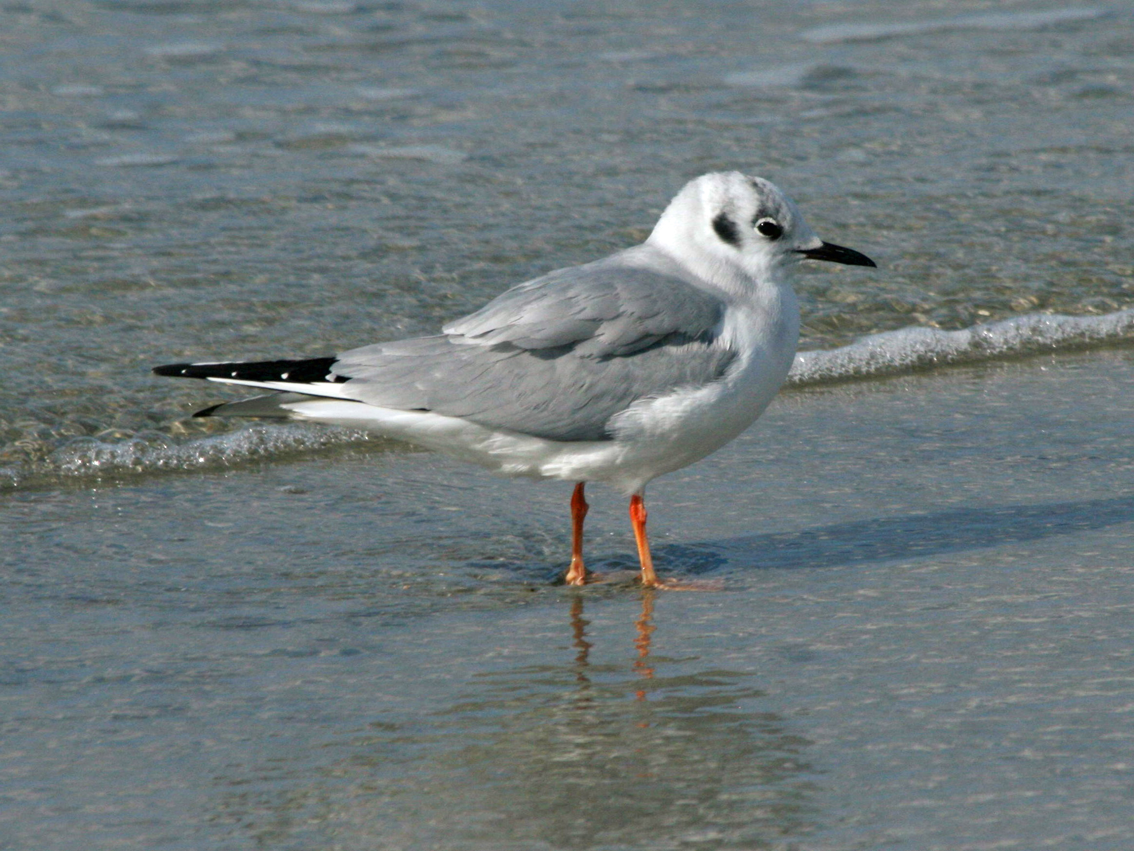 Bonaparte's Gull (Chroicocephalus philadelphia) in North Carolina, USA